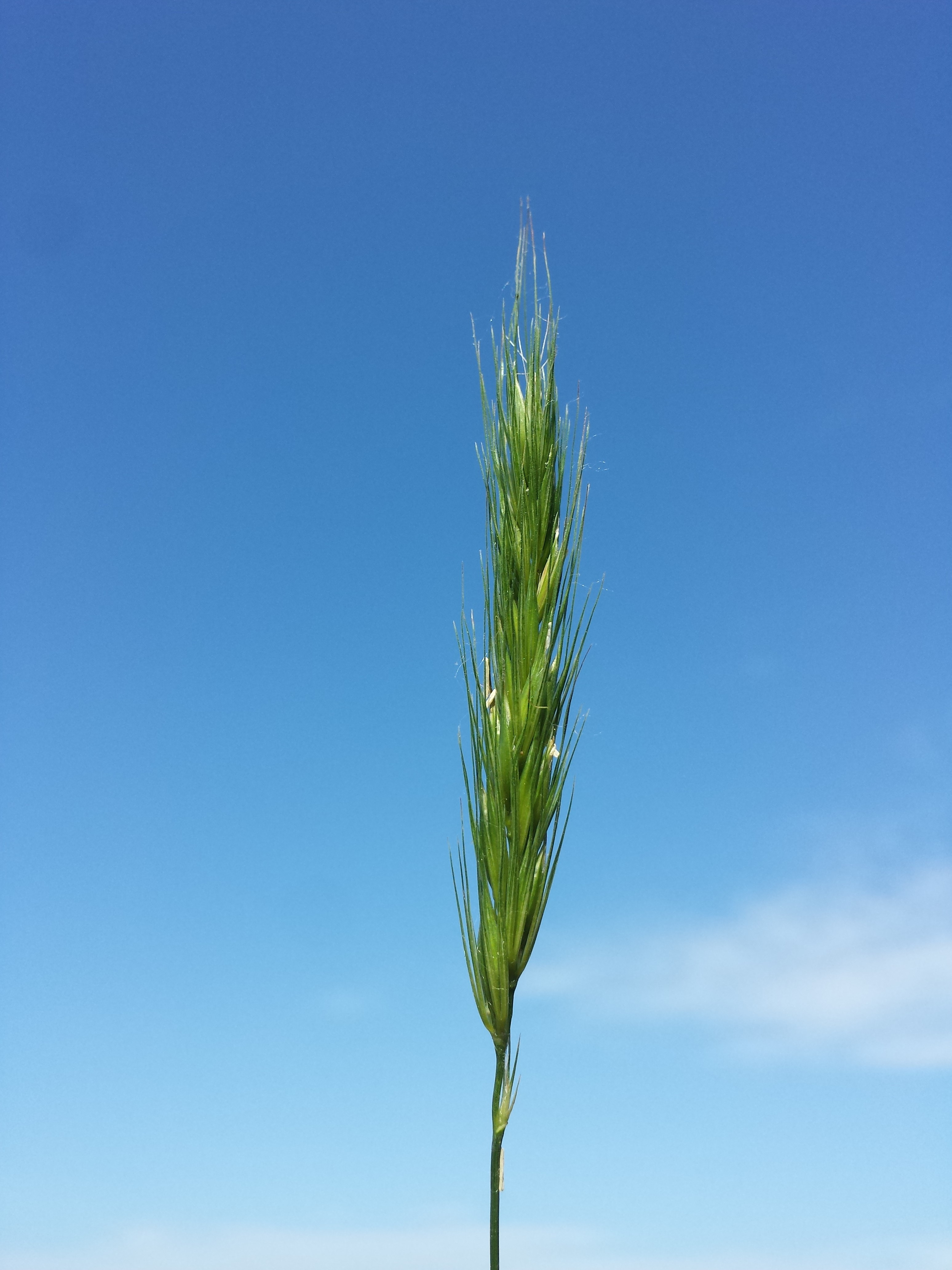 Spike Taxonym: Hordelymus europaeus ss Fischer et al. EfÖLS 2008 ISBN 978-3-85474-187-9 Location: Galgenwald east of Merkersdorf, district Korneuburg, Lower Austria - ca. 280 m a.s.l. Habitat: bright wood